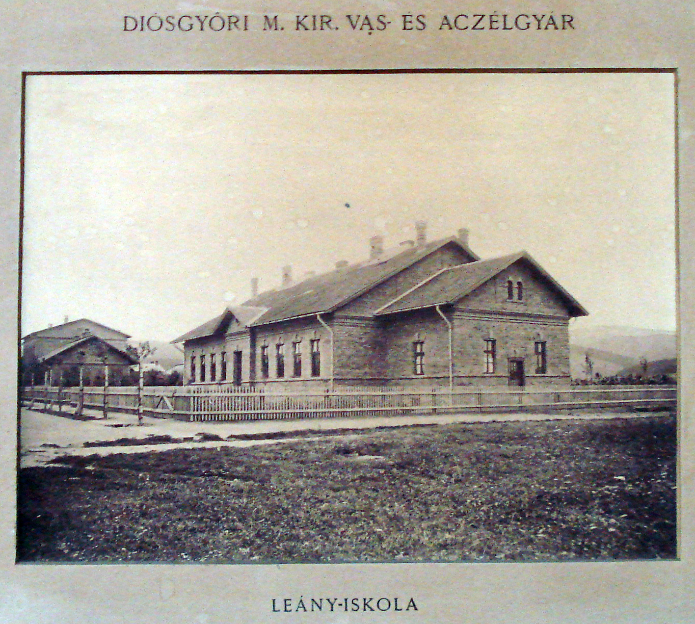 Photo of the old girl school, before 1900. Kabar street, Diósgyőr-Vasgyár, Miskolc, Hungary..